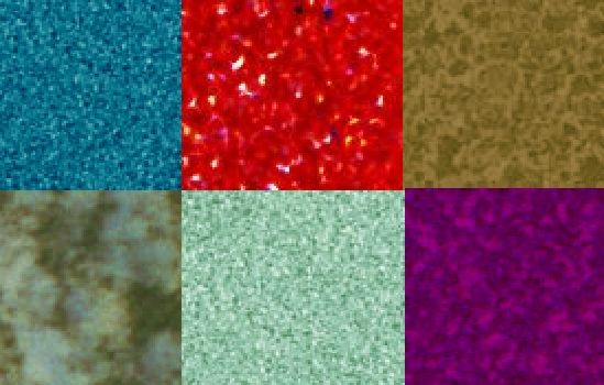 I made this compilation from pieces in my Formica collection. -4micah 23:03, 16 December 2005 (UTC)